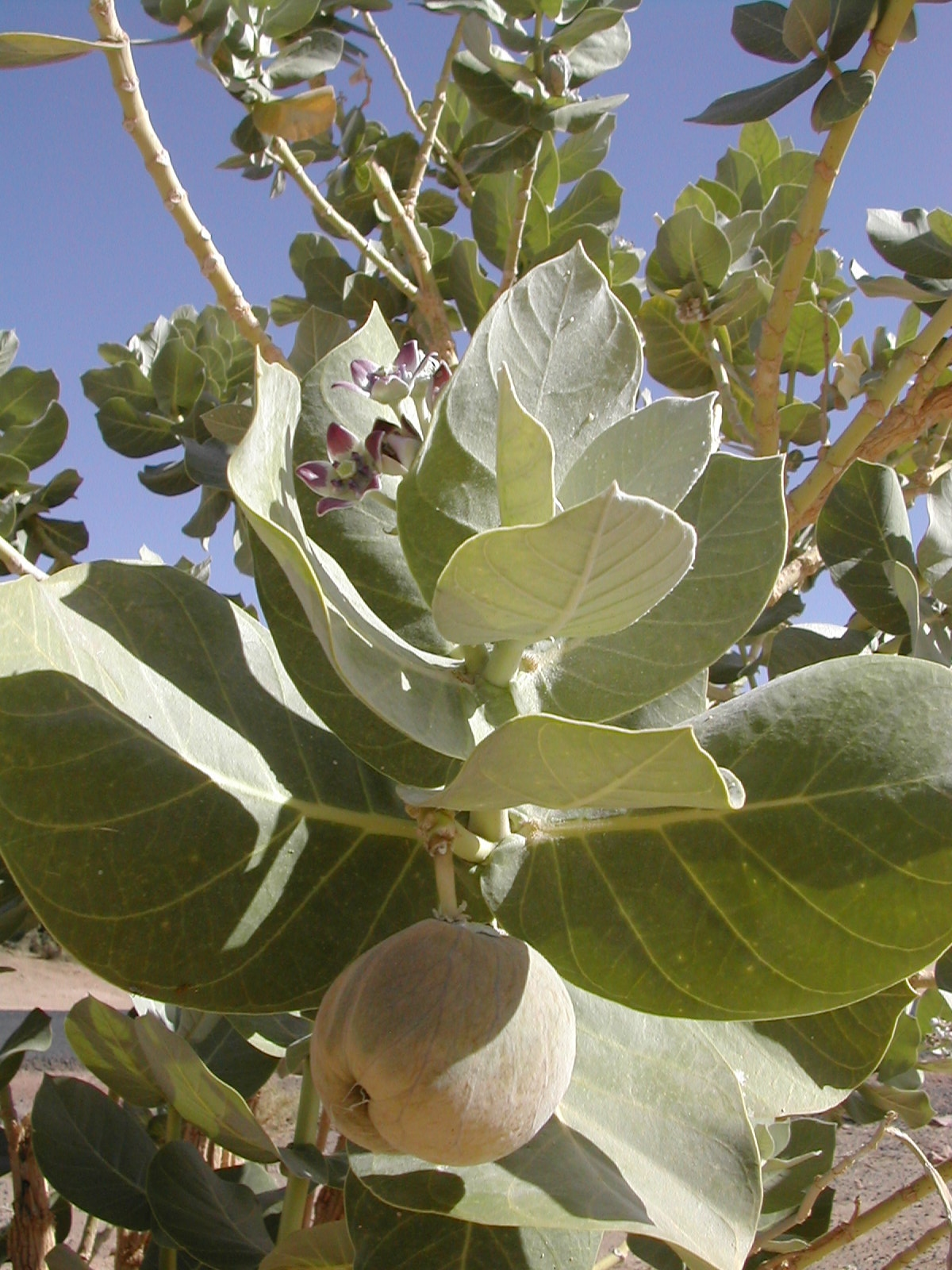 Thora thora, Calotropis procera fruits, Algérie